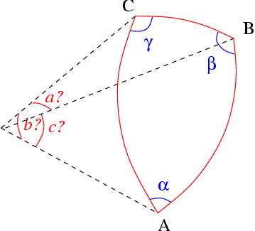 Solving a spherical triangle with these known elements α, β, and γ.